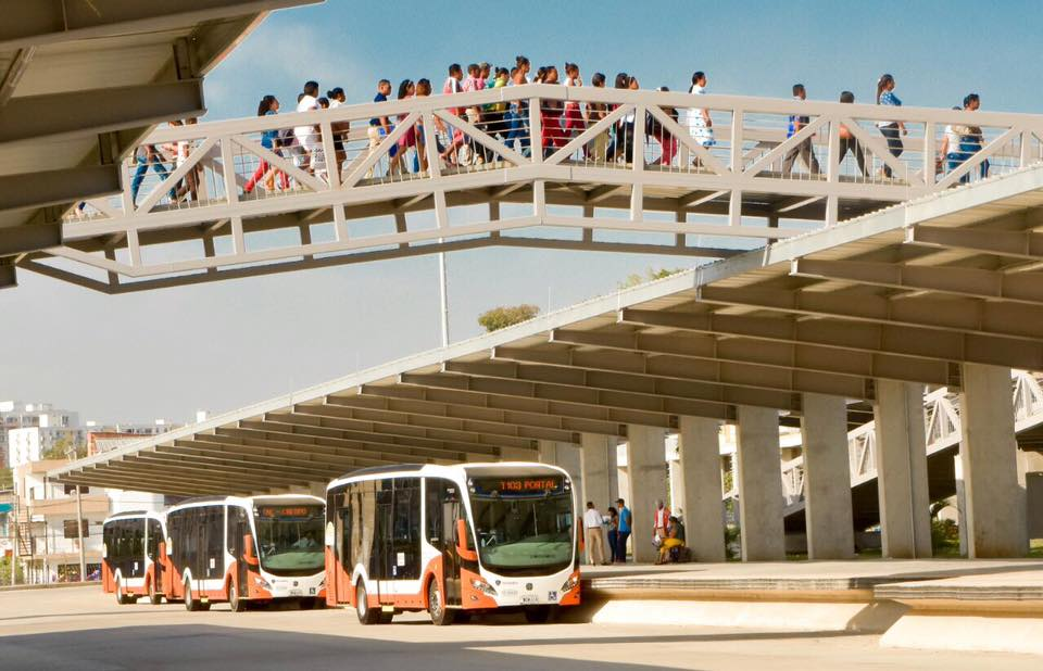 patio portal el gallo de transcaribe